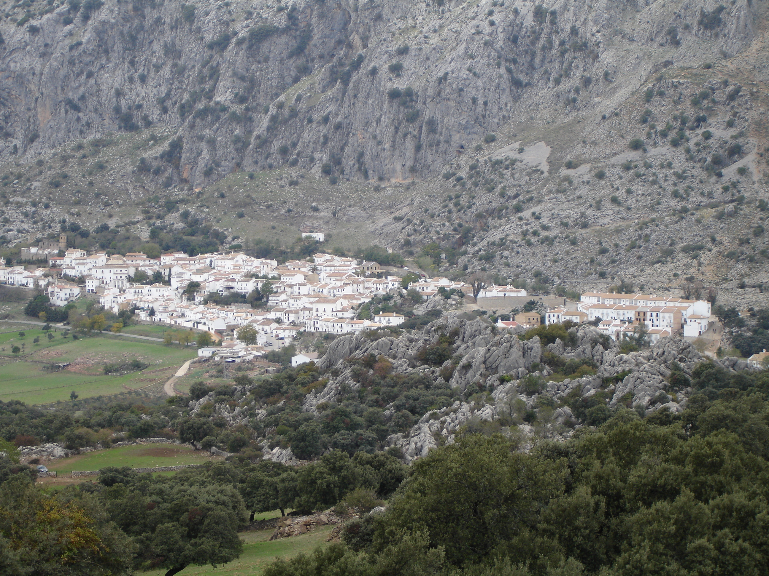 Villaluenga (Spain)